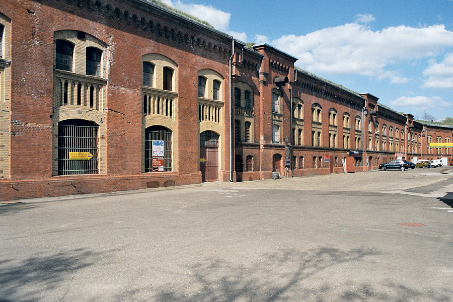 Toruń, part of Prussian fortification - bakery and magazine of food supplies.